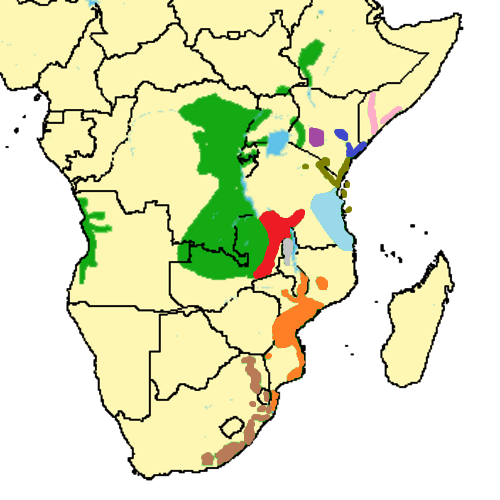 Ranges of subspecies of the Blue monkey Cercopithecus albogularis albogularis C. a. albotorquatus C. a. erythrarchus C. a. francescae C. a. kolbi C. a. labiatus C. a. moloneyi C. a. monoides C. a. zammaranoi Sykes' monkey